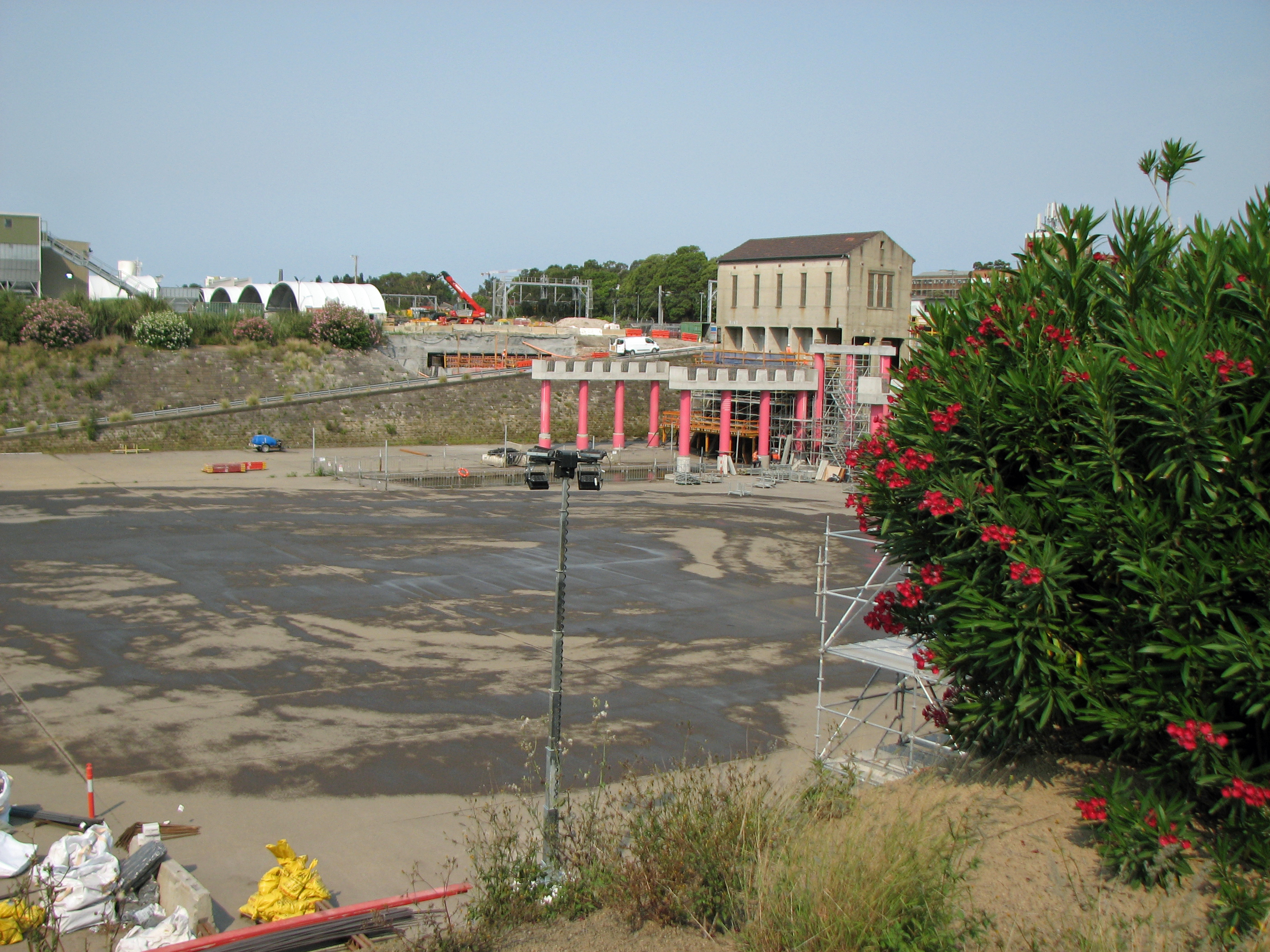 Sydenham Pit and Drainage Pumping Station, Garden Street, Marrickville, NSW is listed on the New South Wales State Heritage Register. The photro shows construction work relating to the Sydney Metro. The pumping station is behind the concrete structure.